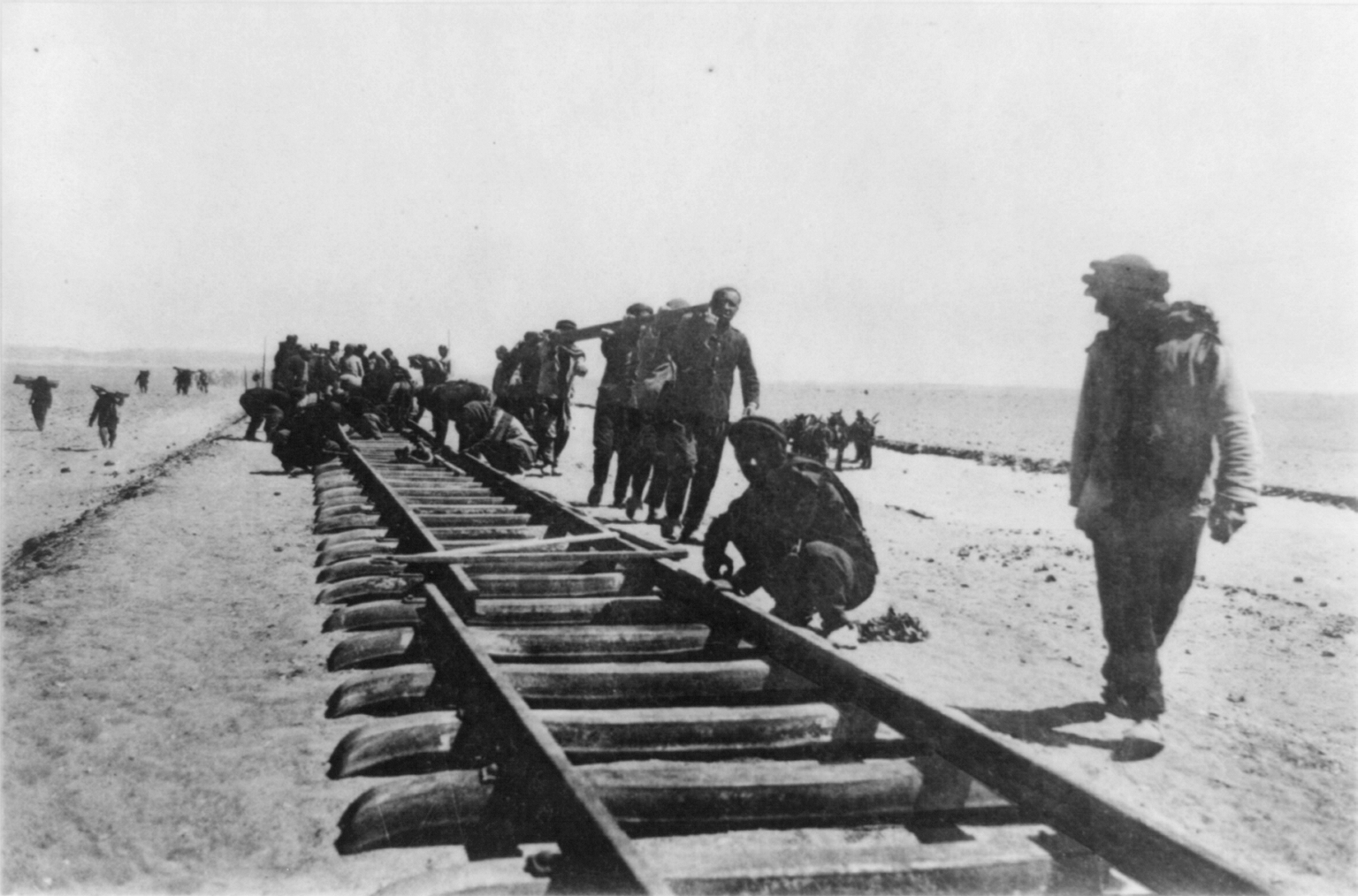 Track laying on the Hejaz Railway near Tebûk (today Tabuk, Saudi-Arabia), 1906.